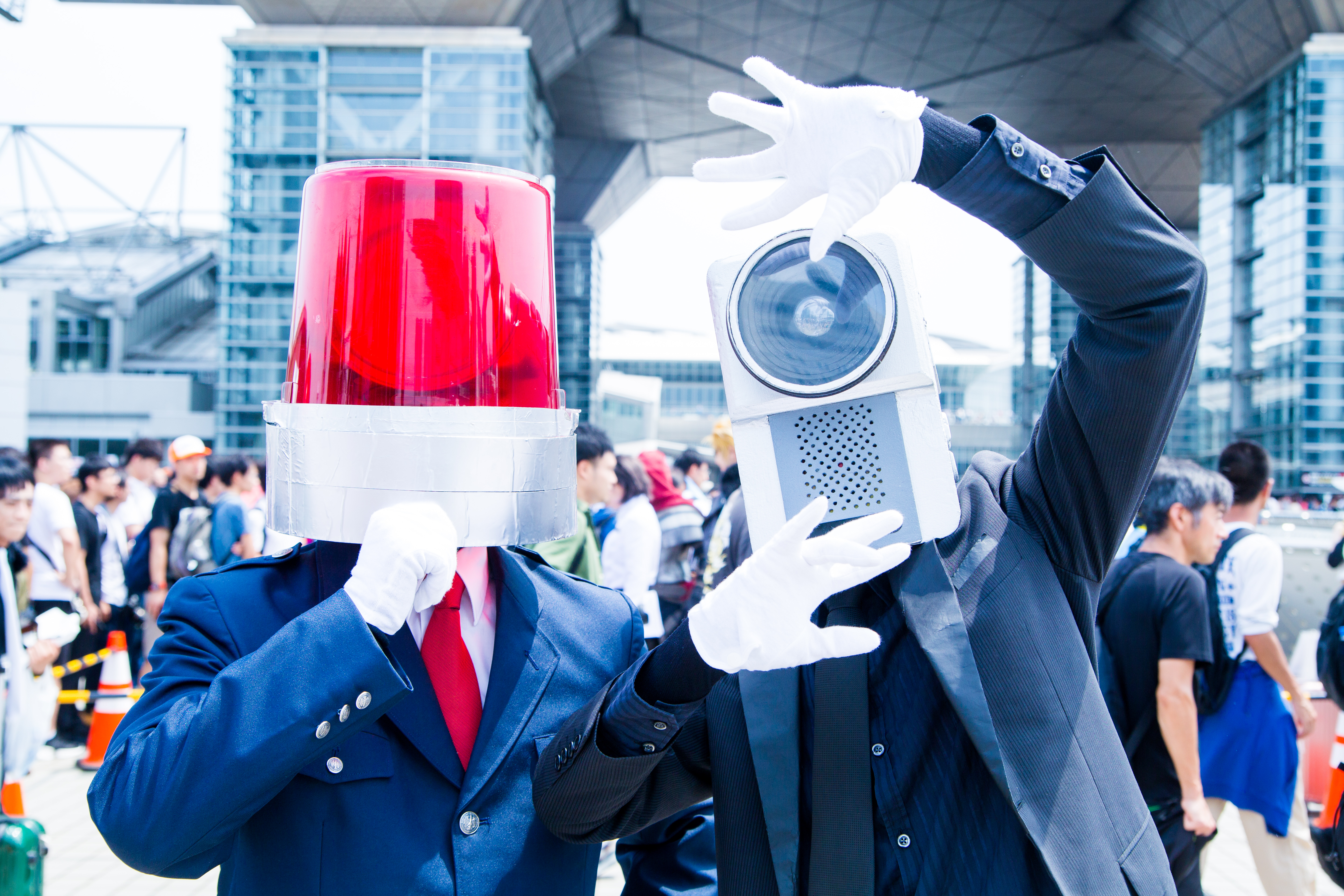 Cosplay of Patrol Lamp Man and Camera Man from the No More Movie Thief anti-piracy campaign at Comic Market 94